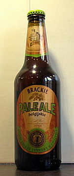 Brackie Belgian PALE ALE , Grand Champion Birofilia 2010, sales began on 6th Dec 2010